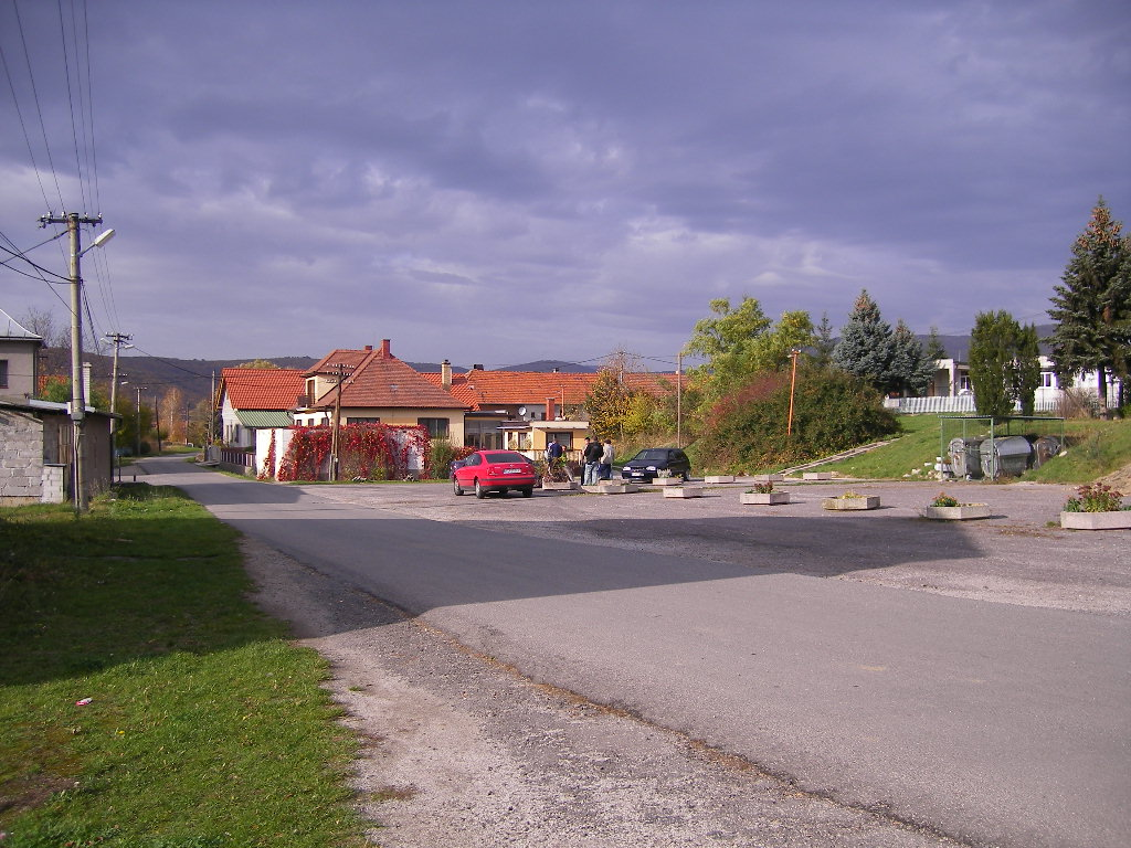 Čereňany - street view